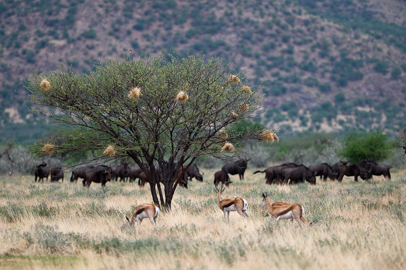 Erindi Animals: blue wildebeest and springboks